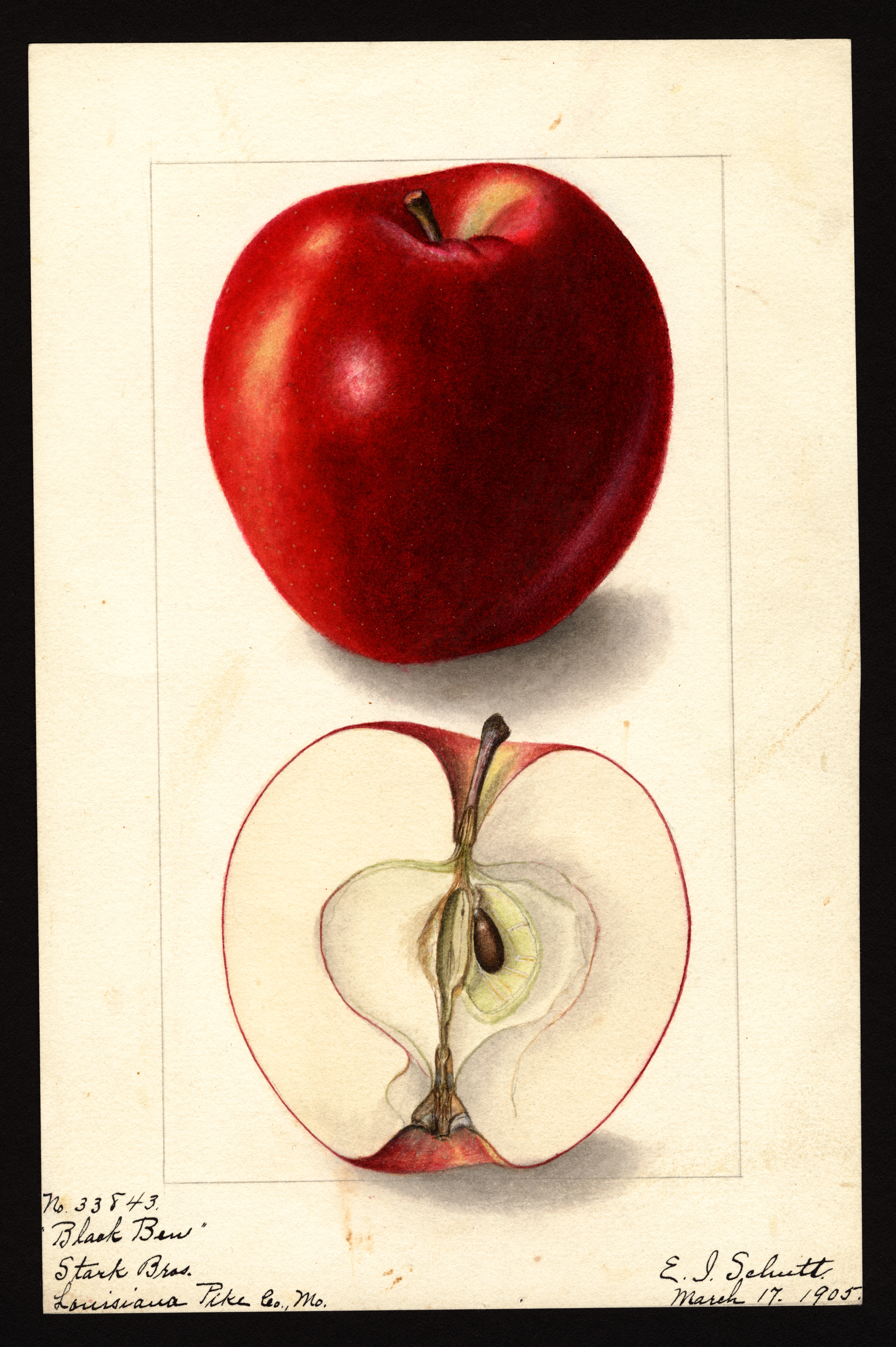 Image of the Black Ben variety of apples (scientific name: Malus domestica), with this specimen originating in Louisiana, Pike County, Missouri, United States. Source: U.S. Department of Agriculture Pomological Watercolor Collection. Rare and Special Collections, National Agricultural Library, Beltsville, MD 20705.